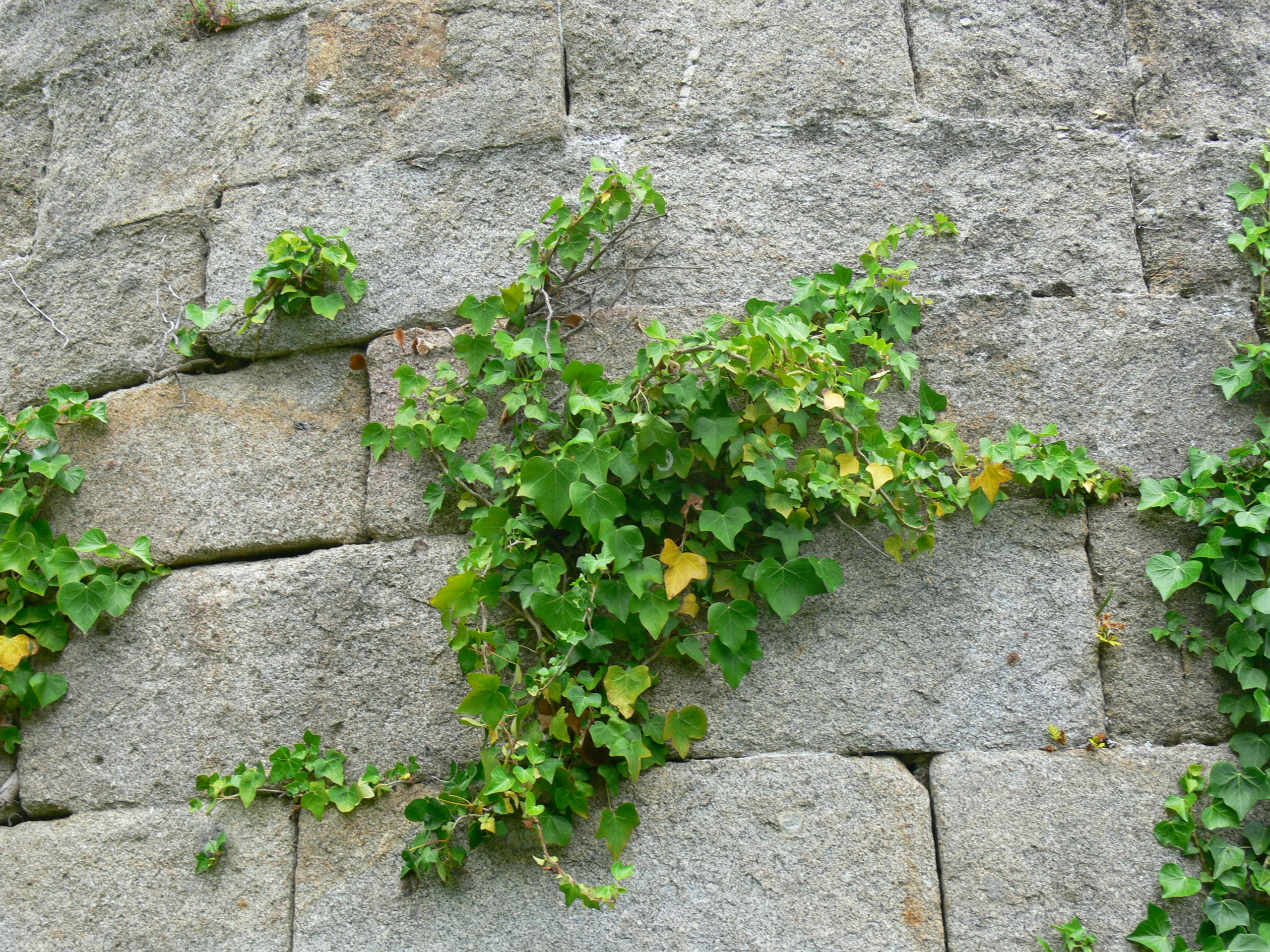 Church ruin of San Lorenzo (Elba). Wild ivy at the walls.